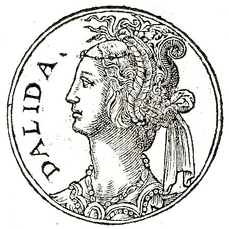 Dalilah appears only in the Hebrew bible Book of Judges 16, where she is the "woman in the valley of Sorek" whom Samson loved, and who was his downfall.